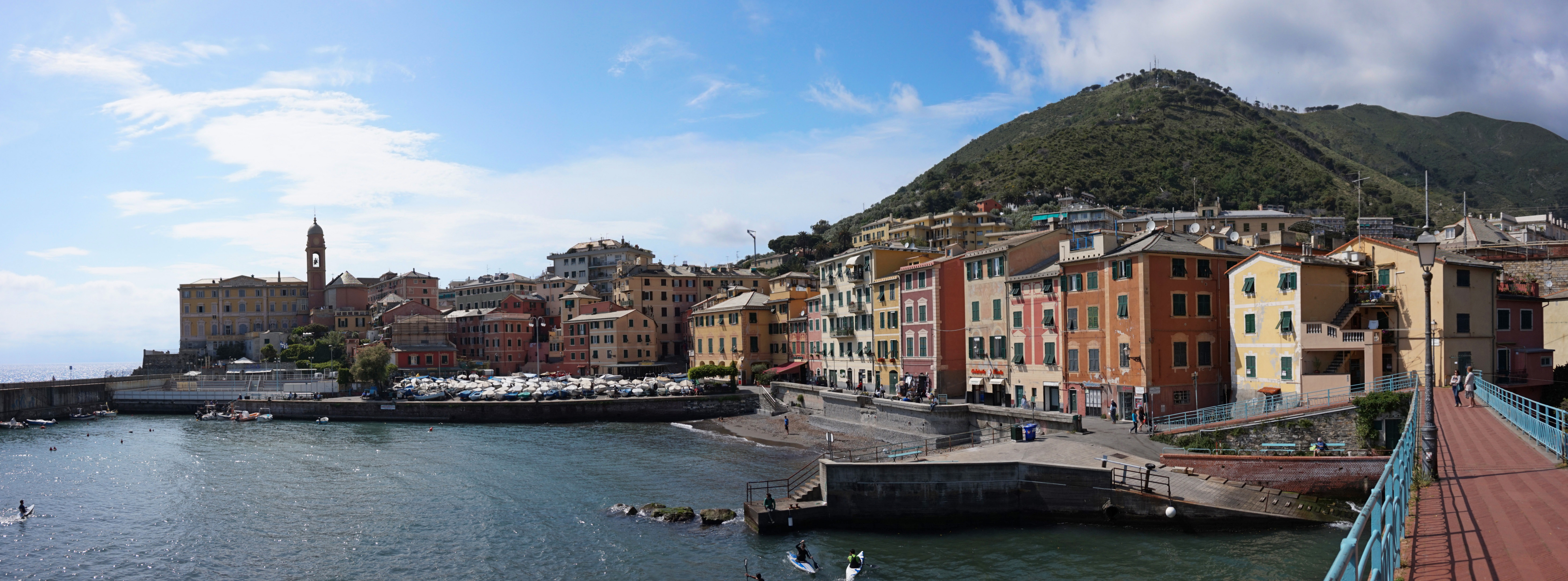 View of Nervi and Monte Moro. This photograph was taken with a Sony Alpha a5000.